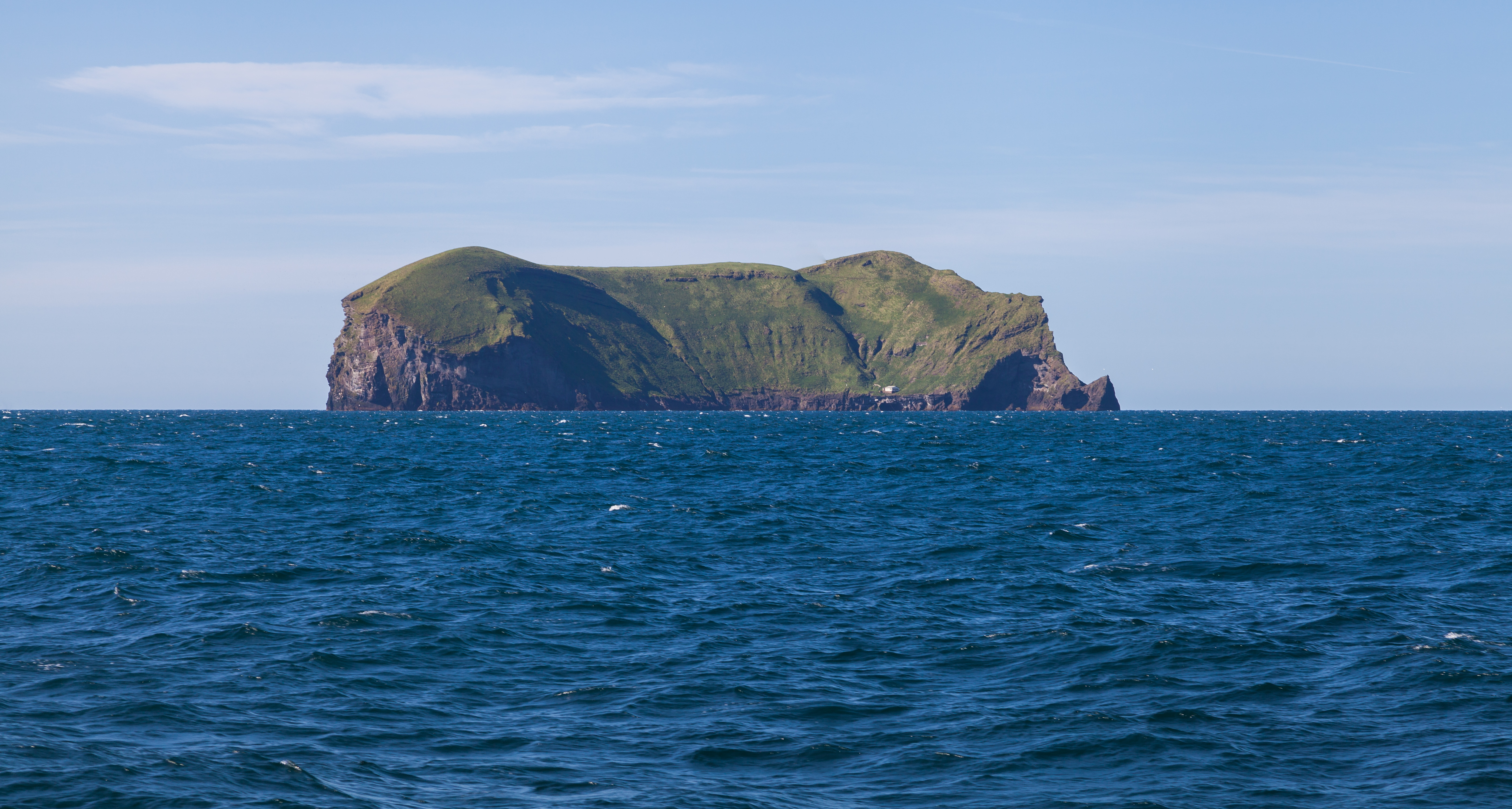 Álsey island, Heimaey, Westman Islands, Suðurland, Iceland